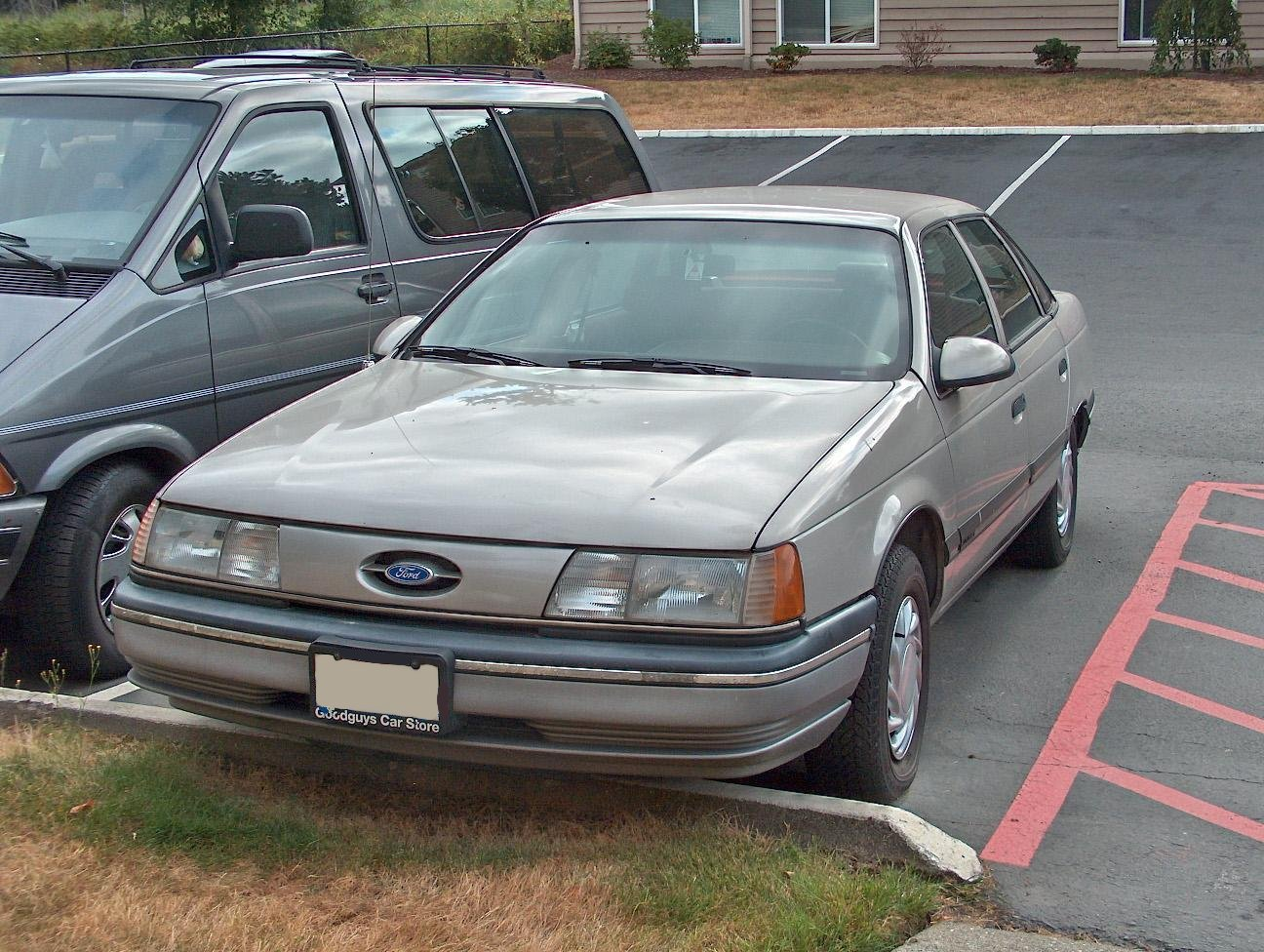 Summary 1st generation taurus, front 2006 taken by wiarthurhu